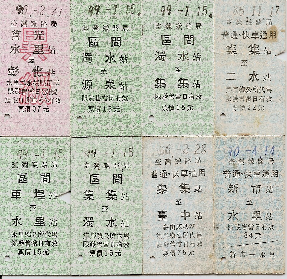 tickets of JiJi Line